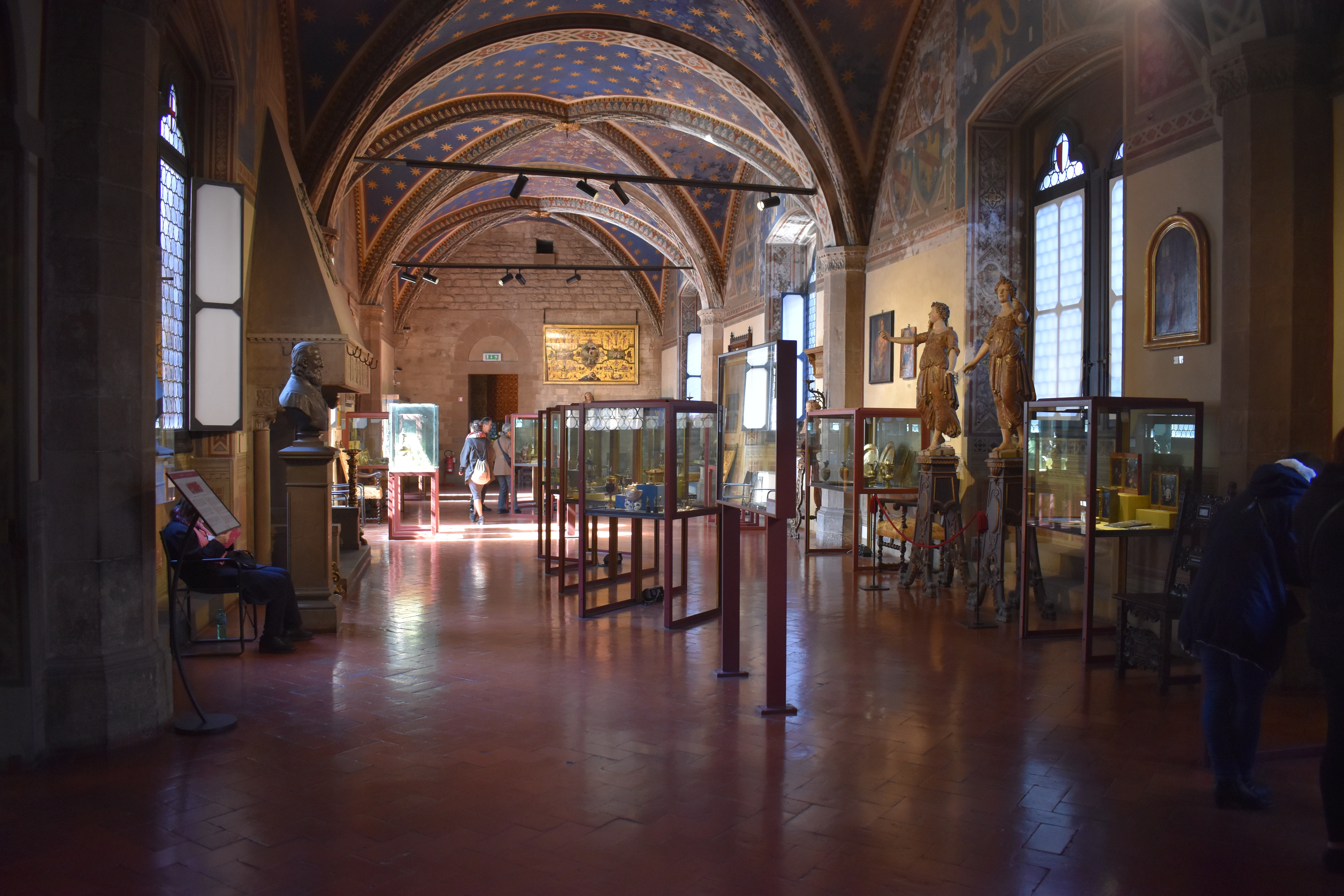 Carrand room, Museo Bargello, Florence